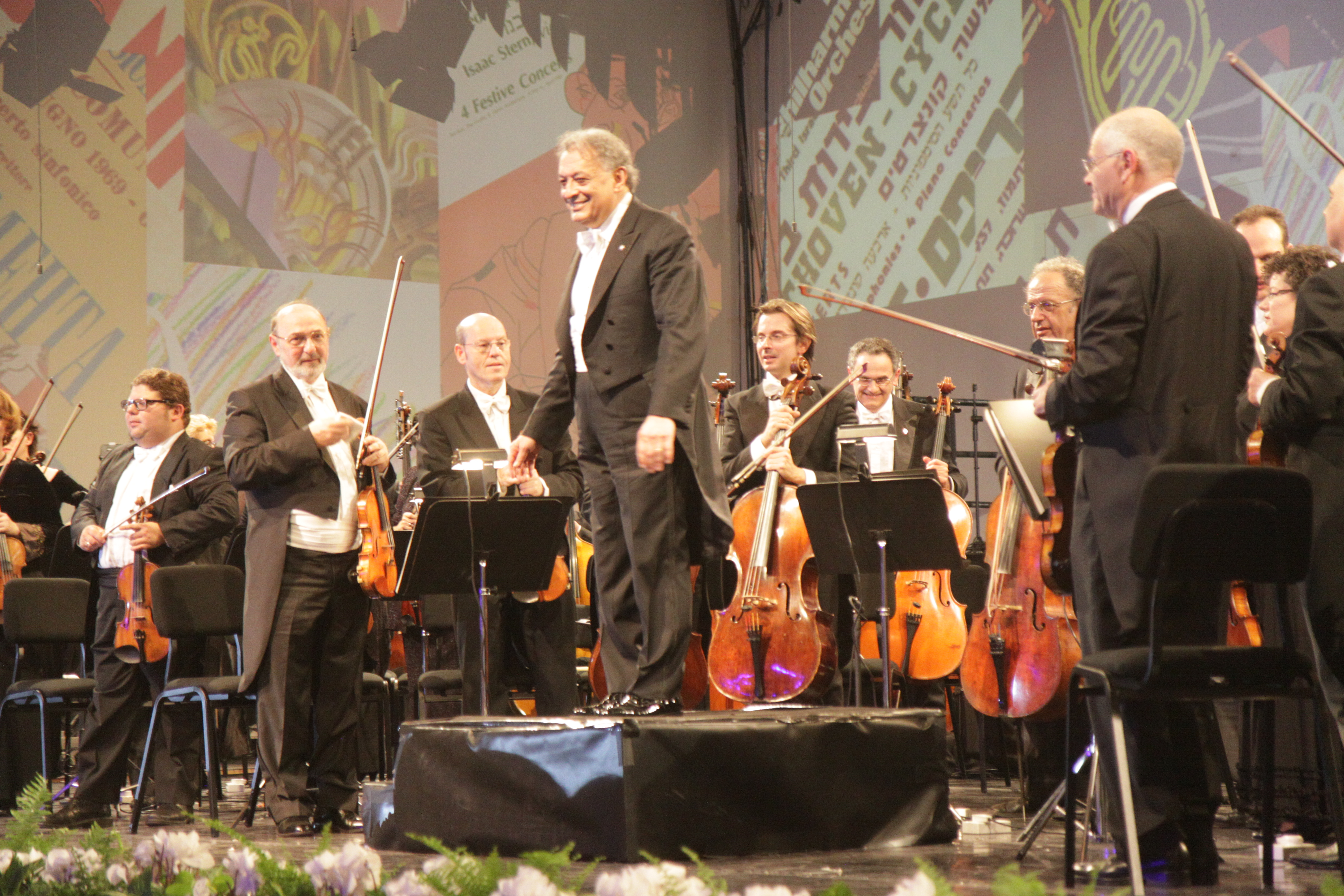 Zubin Mehta with Israel Philharmonic Orchestra. 75th anniversary of the Orchestra. Tel Aviv, 24-12-2011